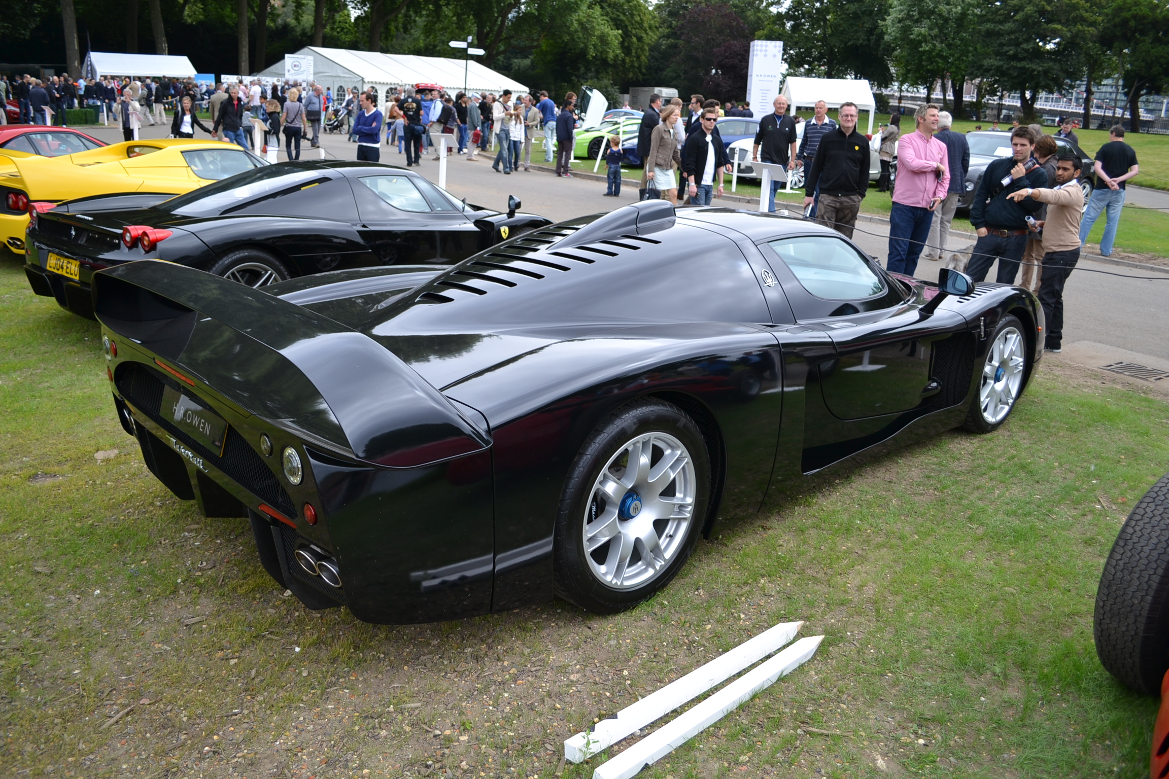 Chelsea Auto Legends 2012